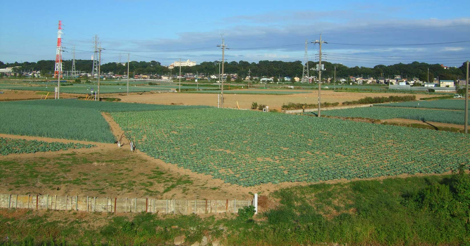 Scenery of field in Yakiri.